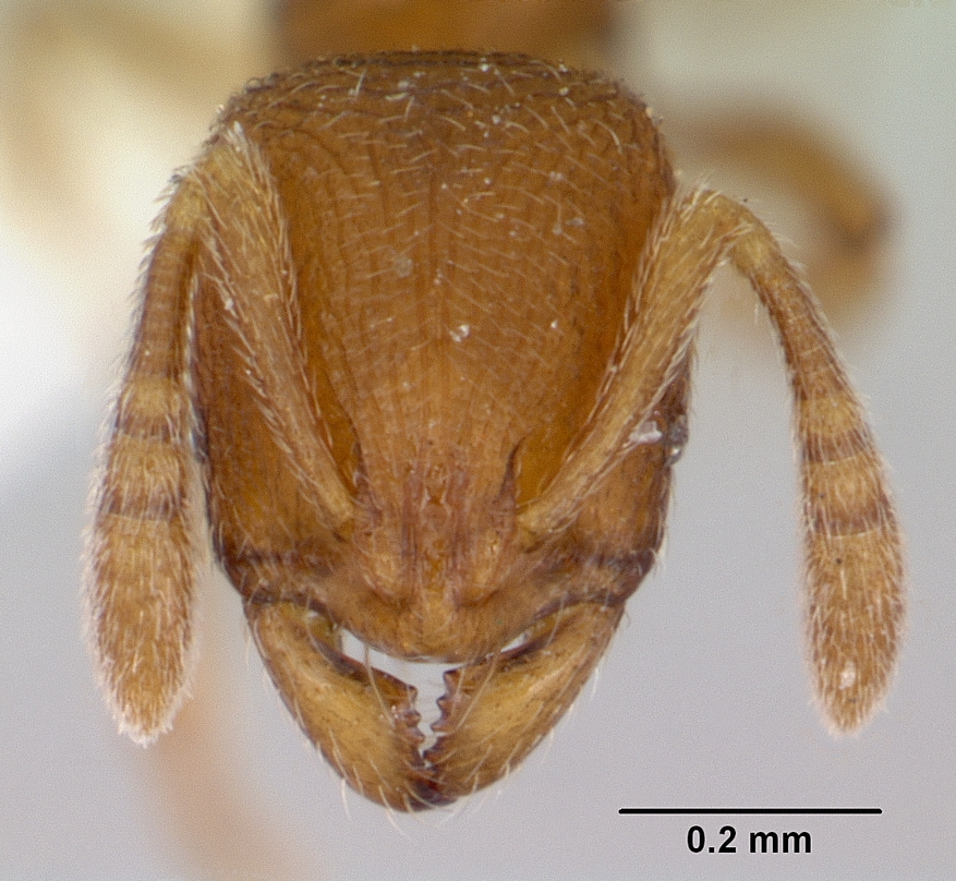 Head view of ant Rogeria curvipubens specimen casent0173282.